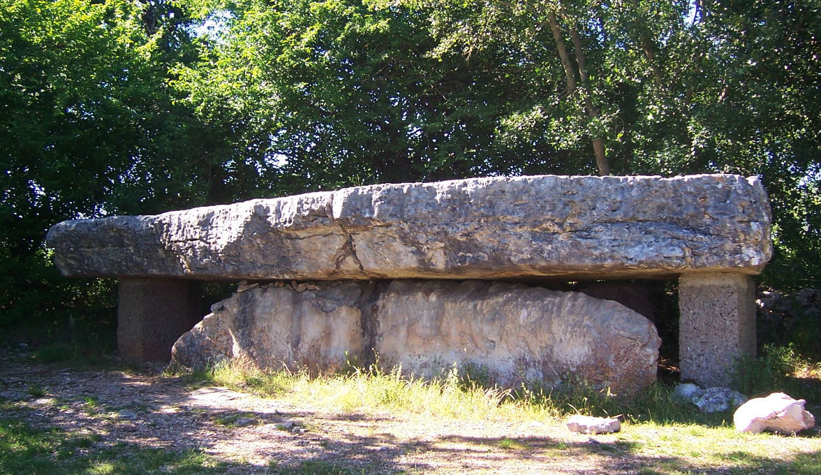 Dolmen de la Pierre Martine in Livernon (Lot - France)